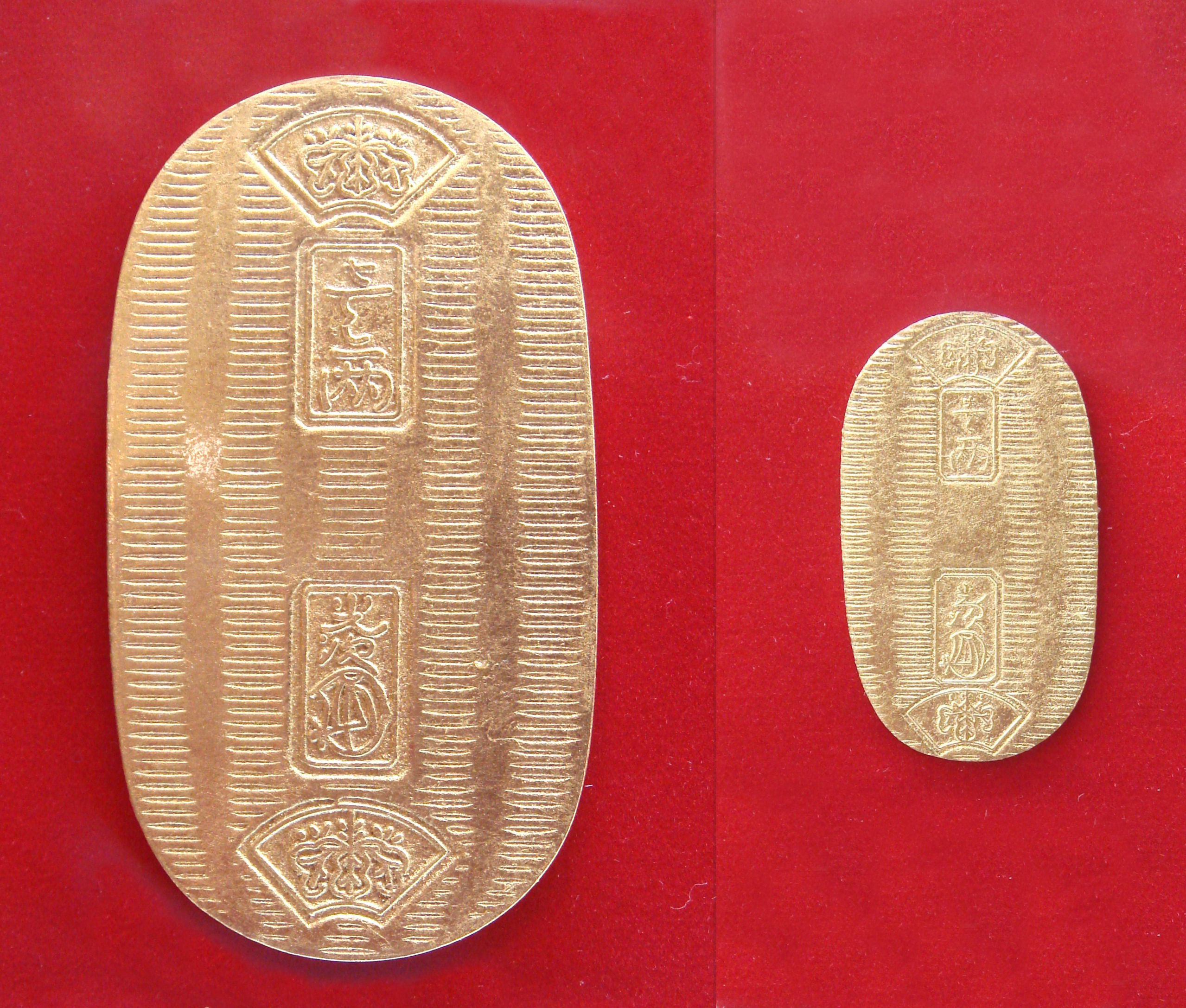 Keicho_koban_1601_1695_vs_Manen_koban_1860_1867